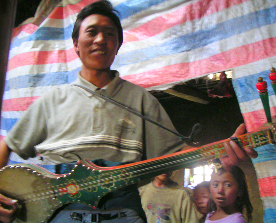 Tibetan dranyen player. Tingri in 2005.